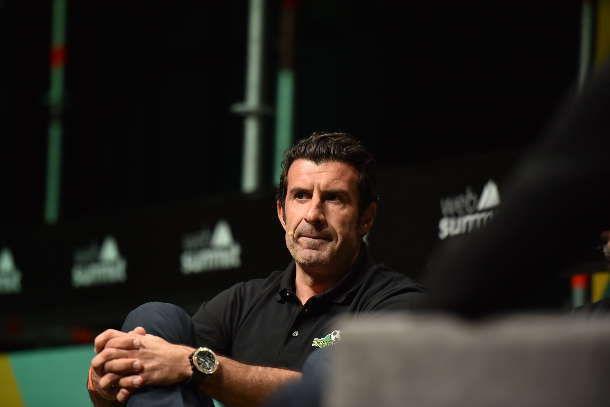 ws (8 of 26)